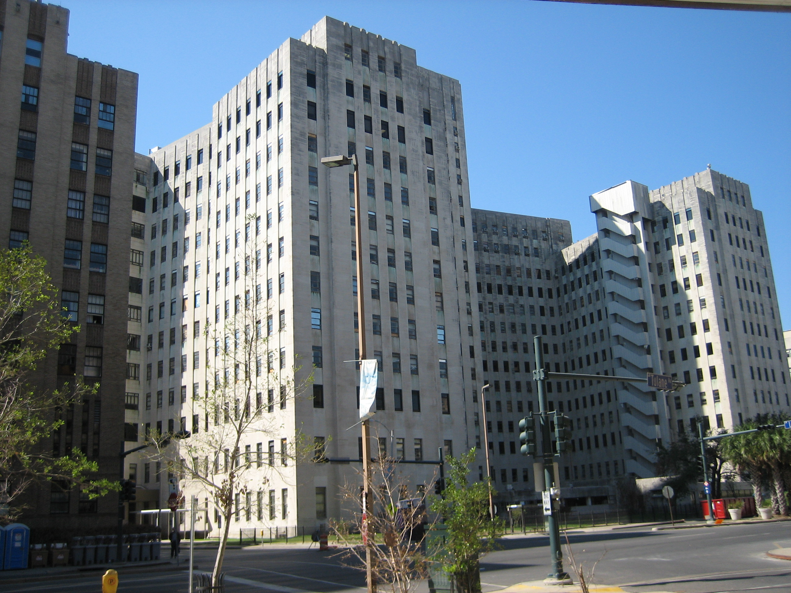 Summary New Orleans after Hurricane Katrina: Charity Hospital on Tulane Avenue. It has been announced that due to severe damage to the building, the hospital will not reopen, and the building is expected to be demolished.